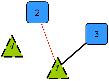 Use of templates in Visone.